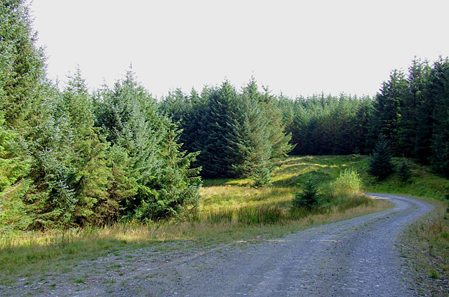 Tywi Forest road, Ceredigion On Bwlch Esgair Gelli